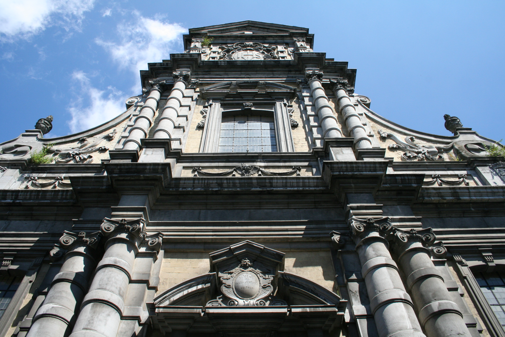 Namur (Belgium), the St. Loup's church (1621-1641).